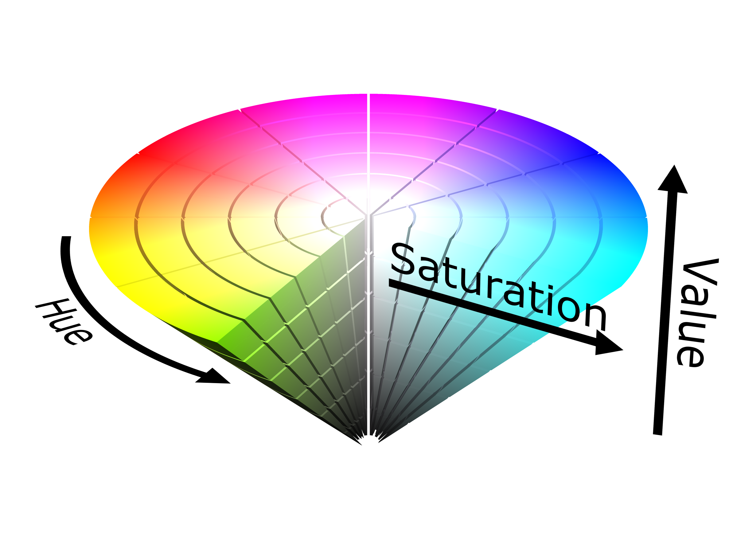 The HSV color model mapped to a cone. POV-Ray source is available from the POV-Ray Object Collection.